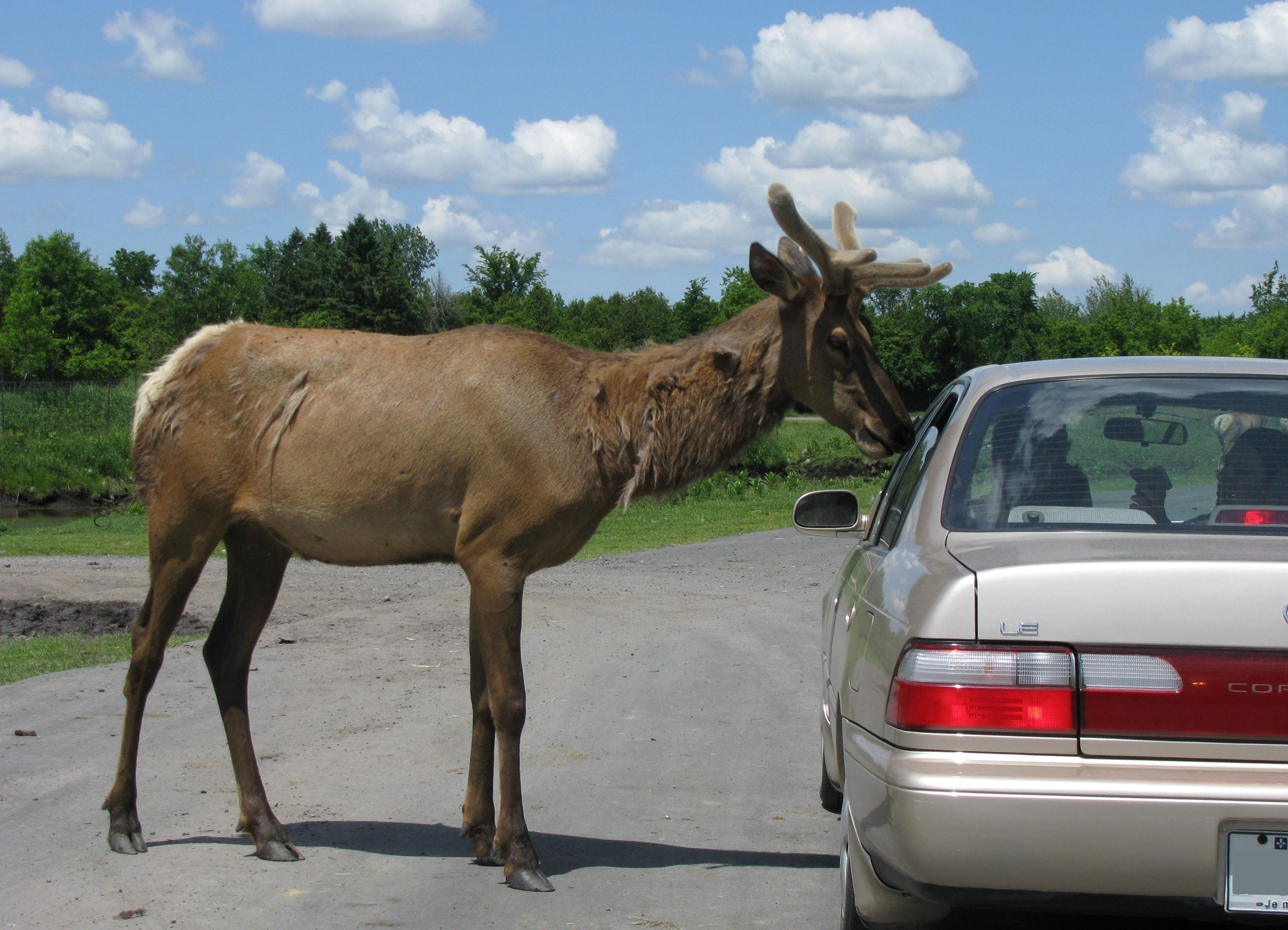 Cervus canadensis (Wapiti, Elk), at Parc Safari, Hemmingford, Québec.